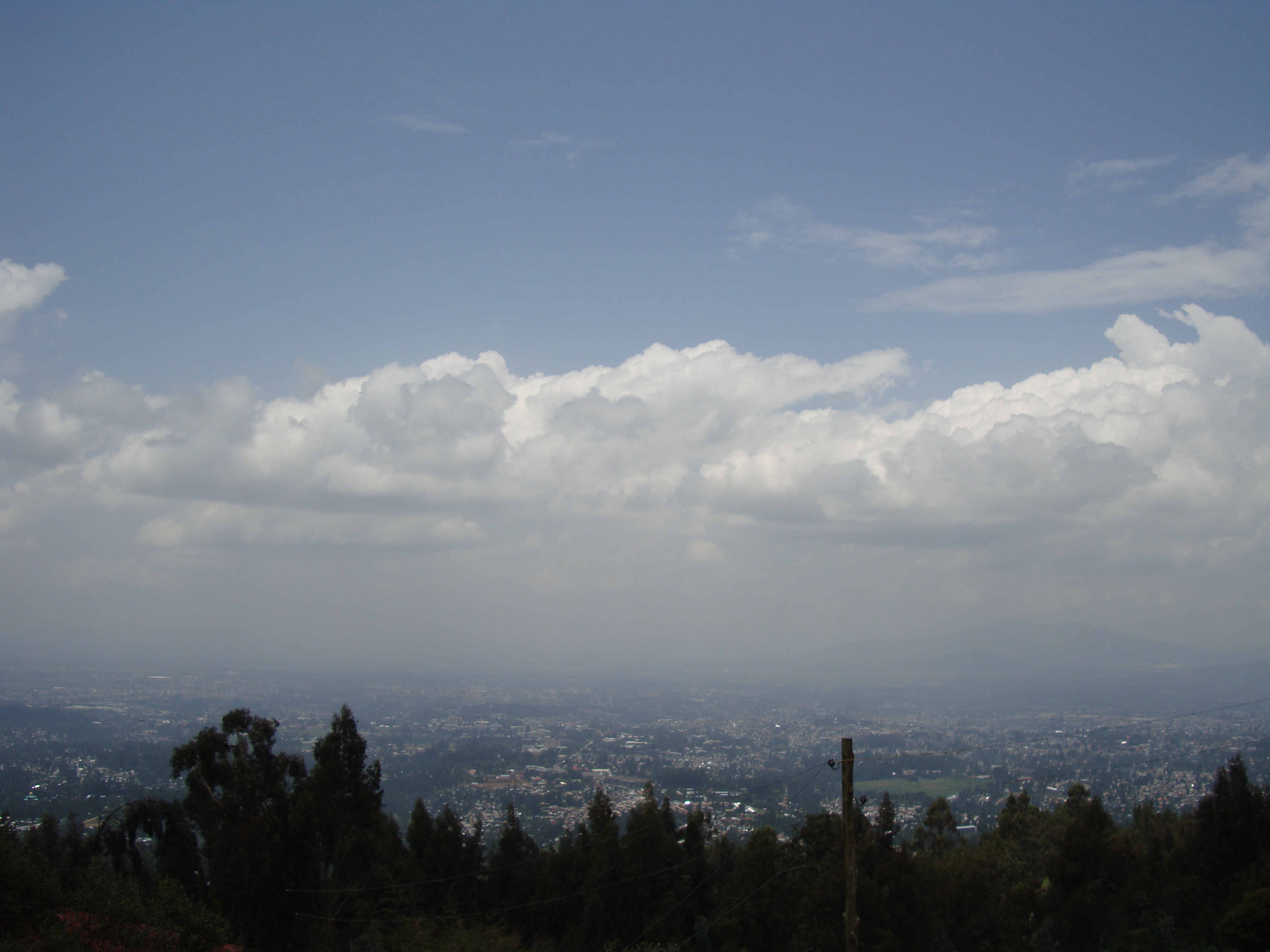 Addis Abeba from Entoto, Ethiopia